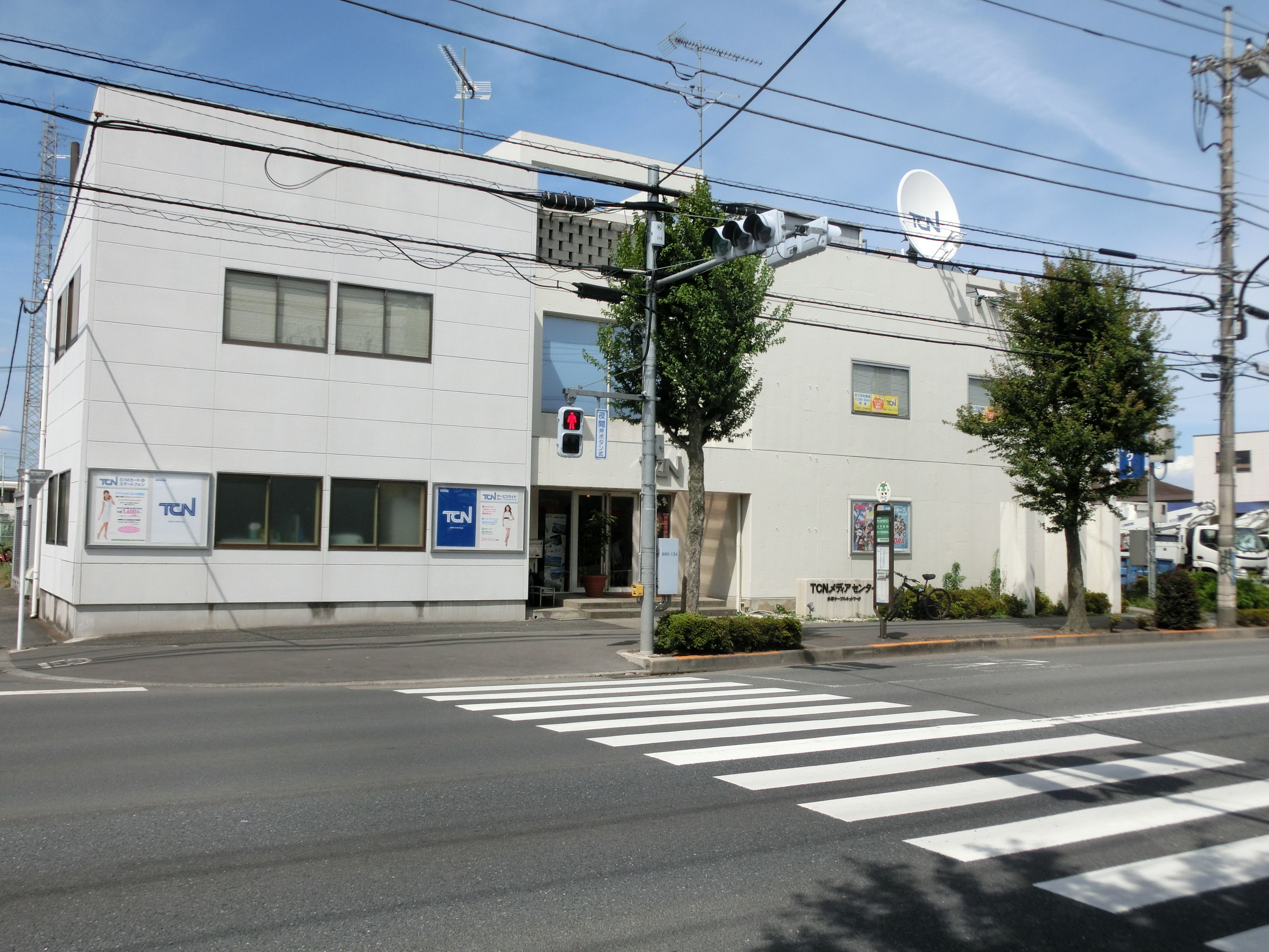 Tama Cable Network Media Center